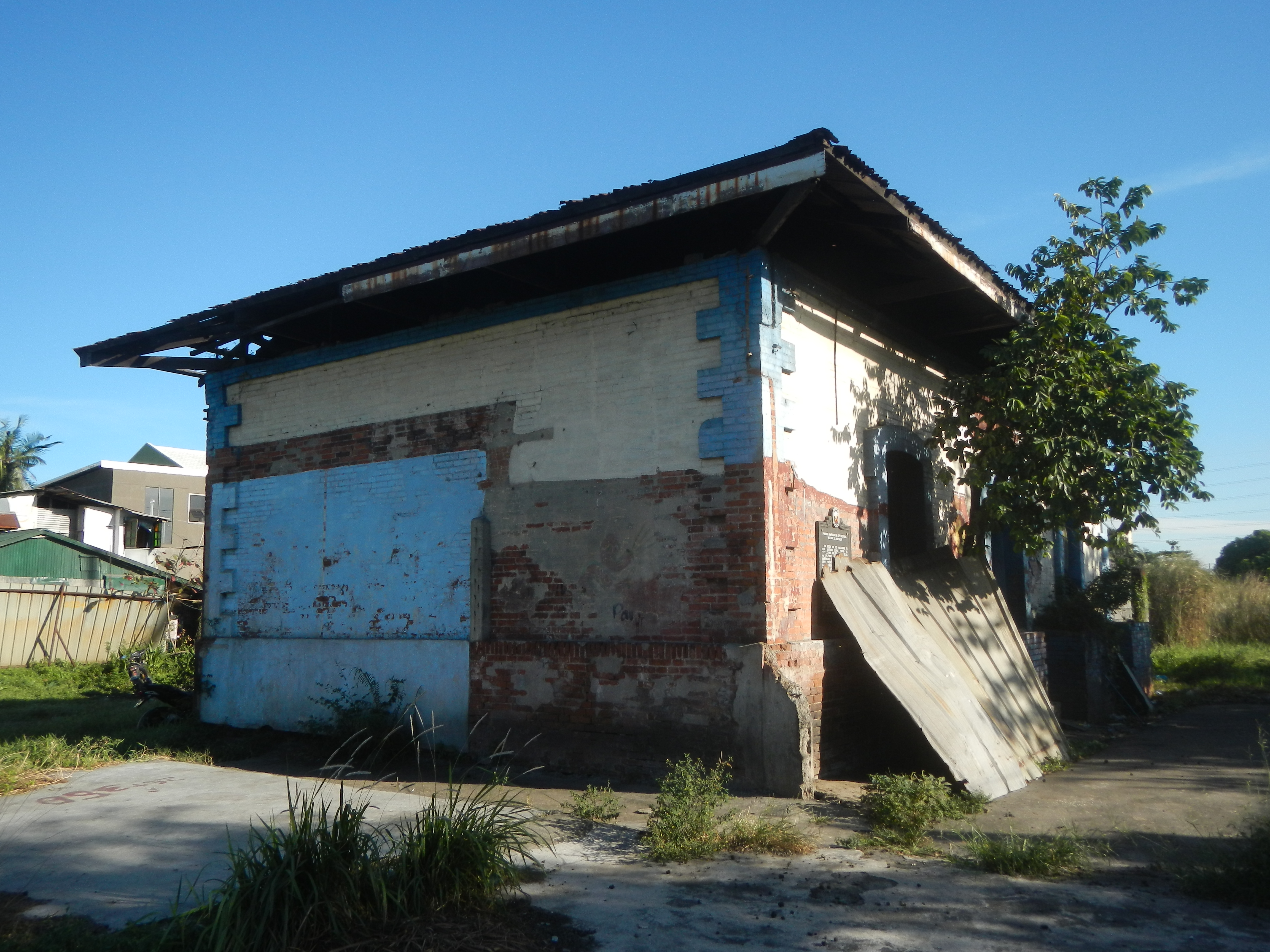 Punong Himpilan ng Operasyong Militar sa Maynila, Antonio Luna 5 February-March 25, 1899 - PNR station, Valenzuela City Valenzuela railway station 5 istasyon ng Manila-Clark Railway minarkahan List of historical markers of the Philippines in Metro Manila Old Polo train Station, Lists of barangays in Philippine cities and municipalities, List of barangays in Valenzuela Punturin, Valenzuela Lawang Bato, Valenzuela Veinte Reales Dalandanan, Valenzuela Dalandanan 14°42'12"N 120°57'45"E Valenzuela, Metro Manila along and from MacArthur Highway or Manila North Road) (Note: Judge Florentino Floro, the owner, to repeat, Donor Florentino Floro of all these photos hereby donate gratuitously, freely and unconditionally all these photos to and for Wikimedia Commons, exclusively, for public use of the public domain, and again without any condition whatsoever).